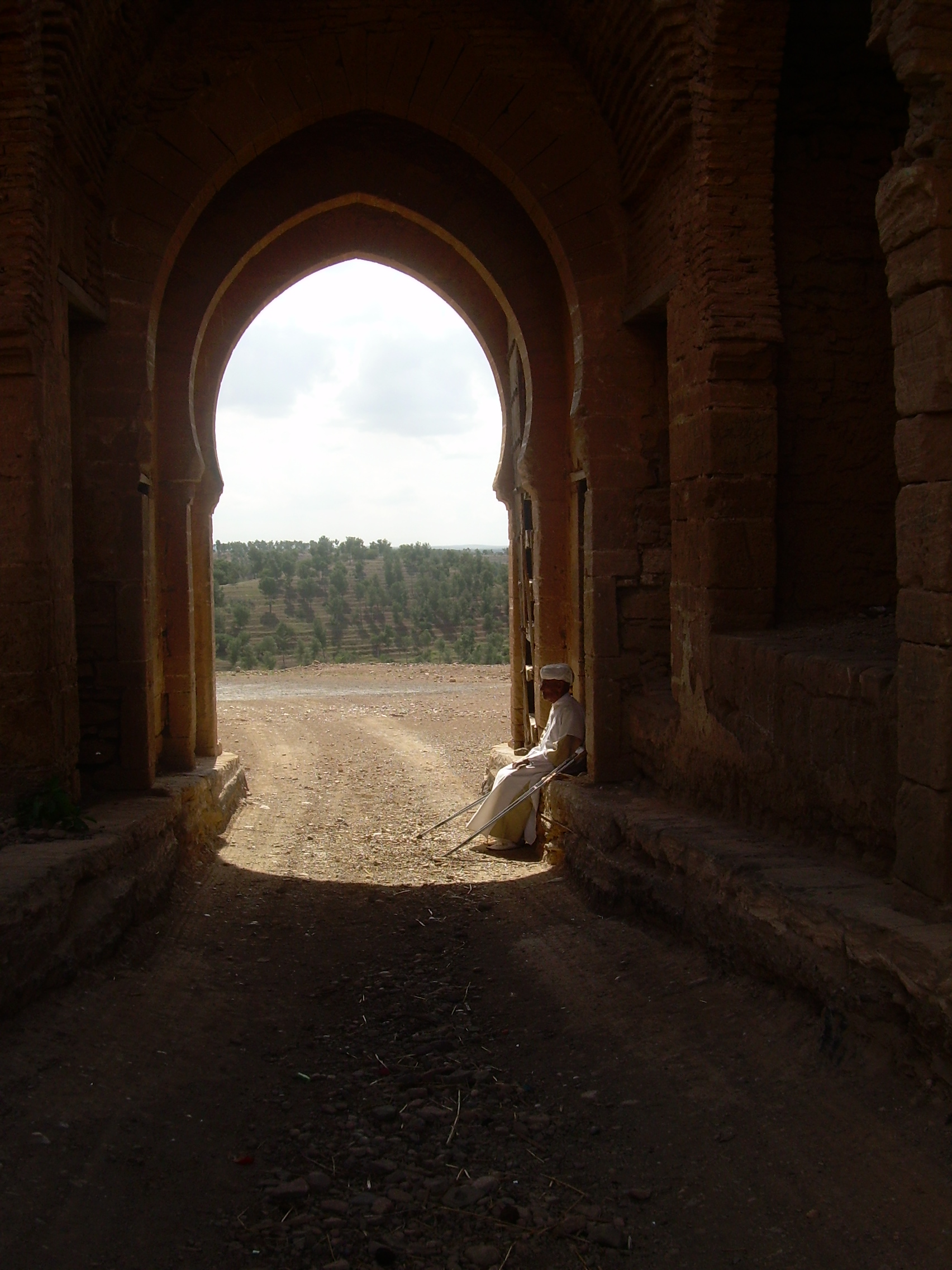 Kasbah in Boulaouane in Morocco